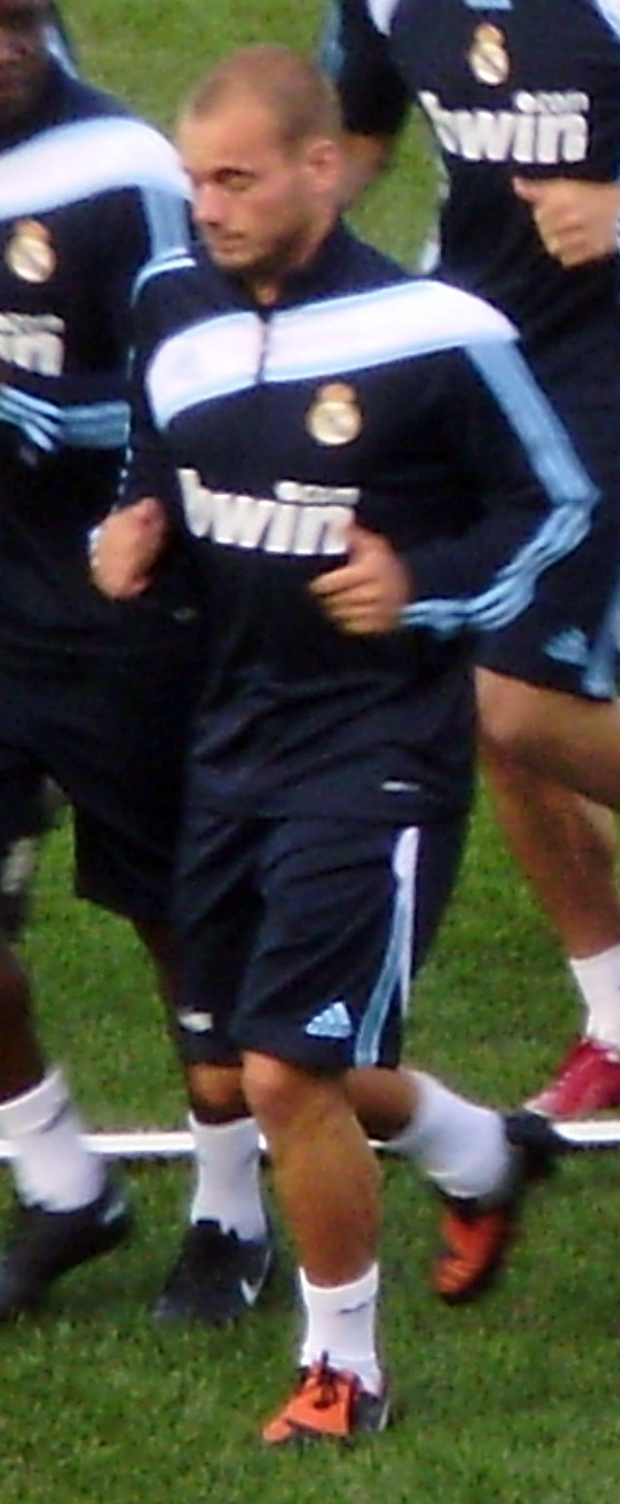 Wesley Sneijder